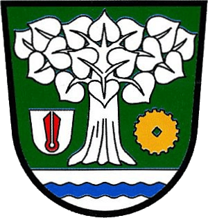 Coat of Arms of Molschleben